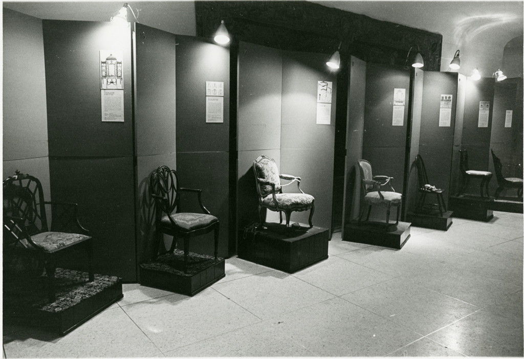 An exhibition of contemporary chairs called "Please Be Seated" presented at the Cooper-Hewitt Museum of Design in conjunction with the Decorative Arts Program of the American Federation of Arts.